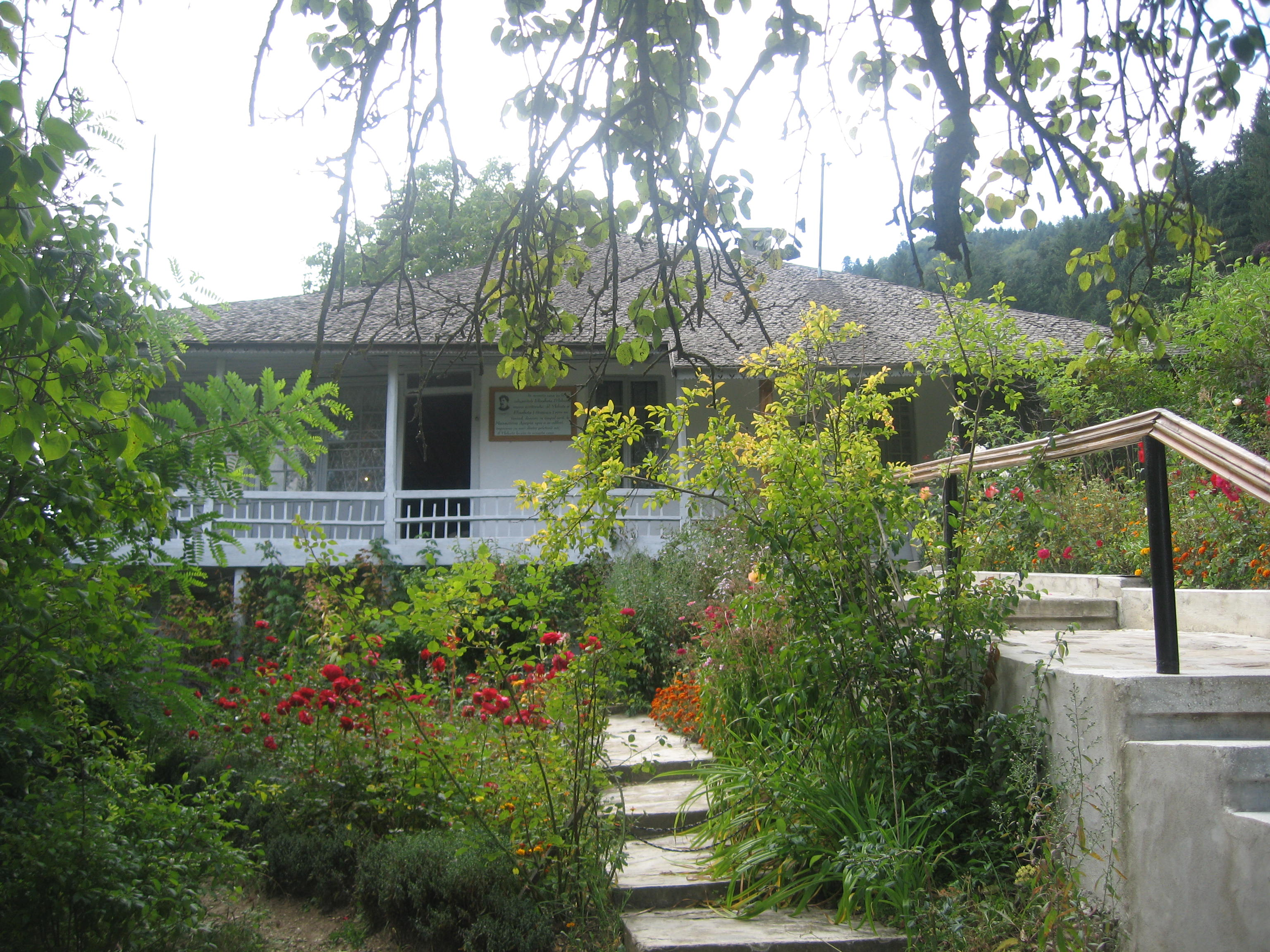 Casa memorială Alexandru Vlahuţă de la Agapia